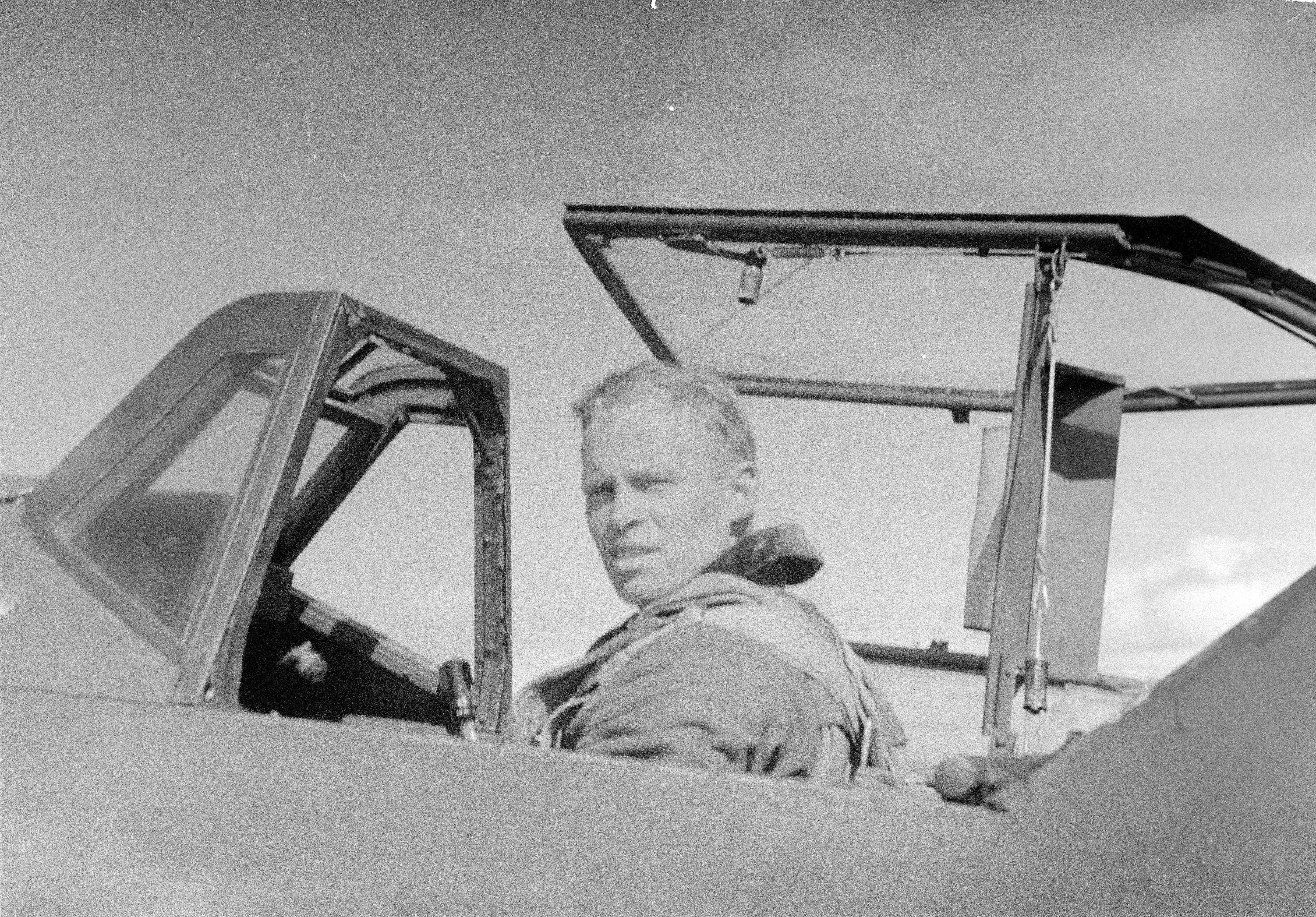 Lieutenant Olavi Puro, who, by mid-August (1944), downed 30 enemy aircraft.